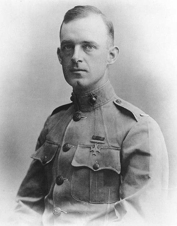 1st Lt. Alexander A. Vandergrift, USMC. Portrait photograph. Though dated 5 April 1917, this image must have been taken in 1914-1916, as Vandegrift was promoted to Captain on 29 August of the latter year.